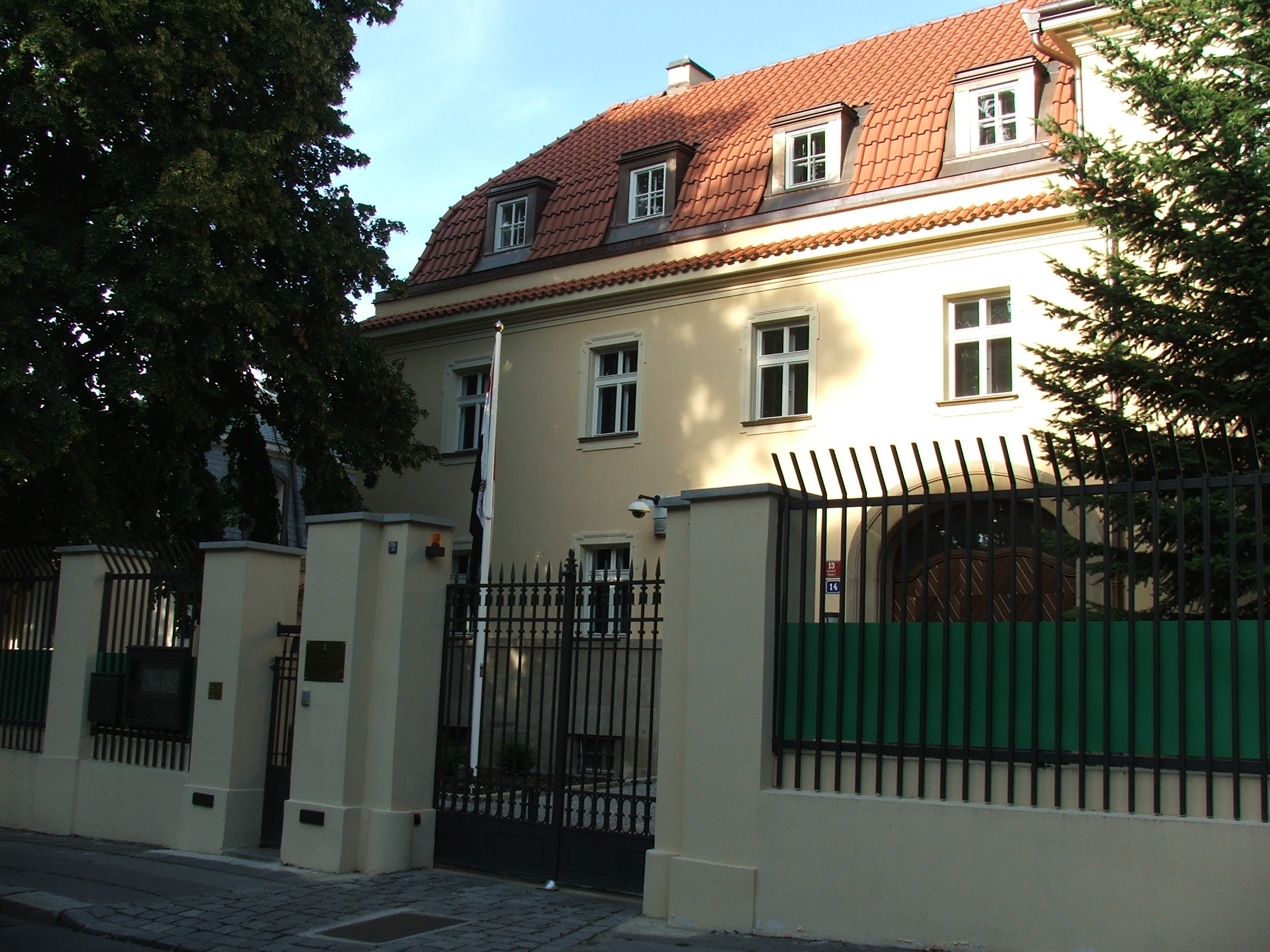 Embassy of Egypt in Prague - Bubeneč, Czechia